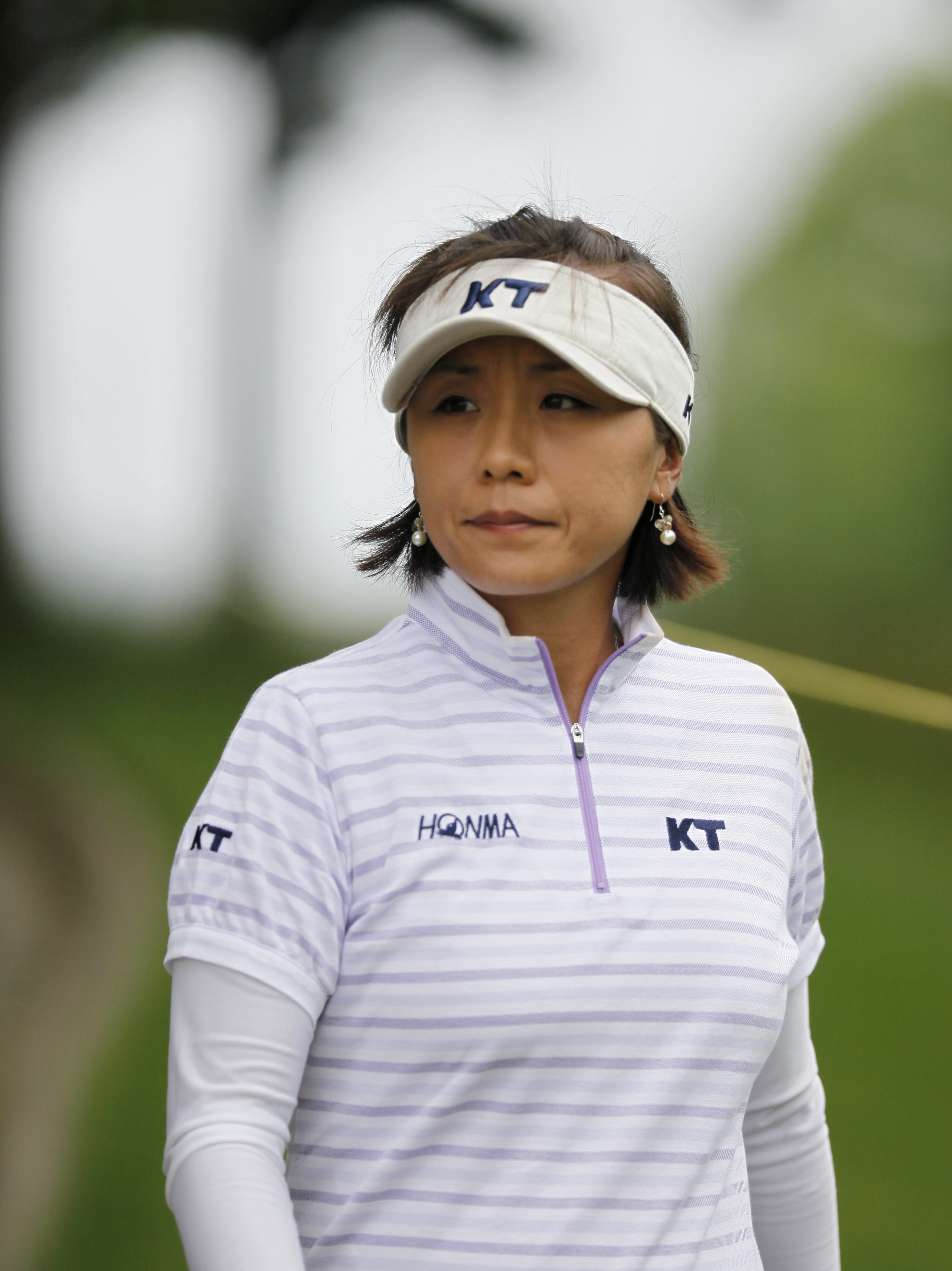 HAVRE DE GRACE, MD - JUNE 10: Mi Hyun Kim (KOR) during practice round before 2009 LPGA Championship held at Bulle Rock Golf Course, on June 10, 2009 in Havre de Grace, Maryland. (Photo by Keith Allison)